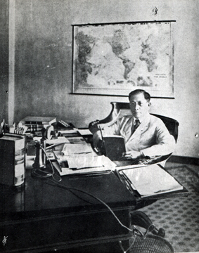 Venancio Concepcion, Filipino general during the Philippine-American War and President of the Philippine National Bank.